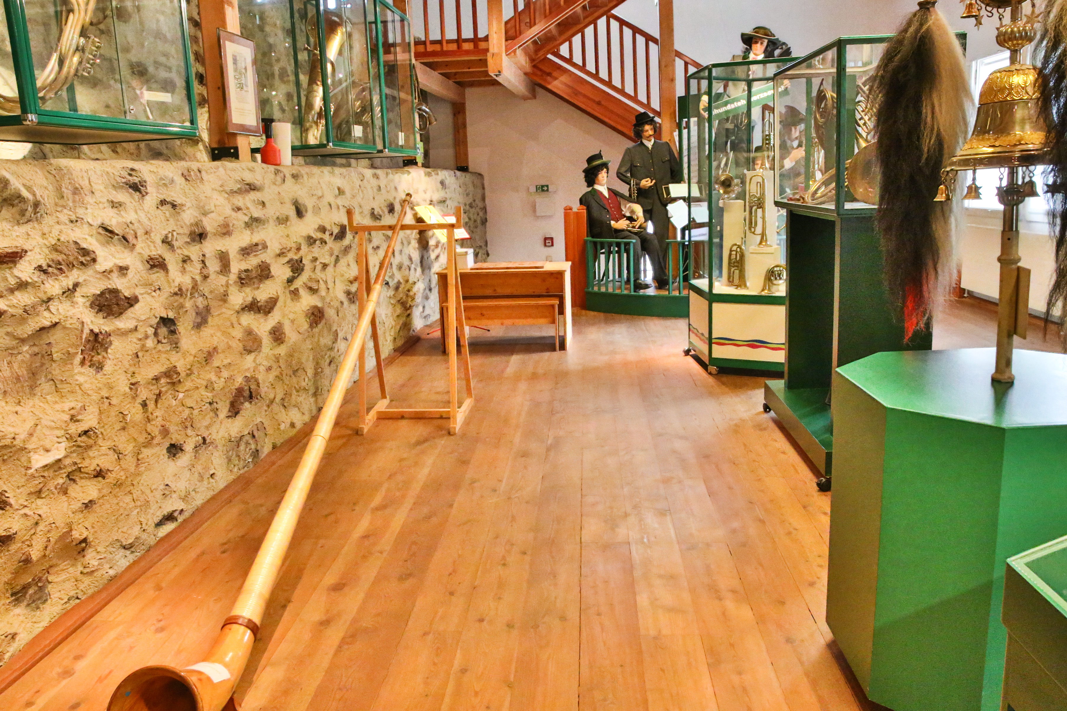 Austrian Brass Music Museum in Oberwölz / Styria / Austria / EU. Room with alphorn to try out.